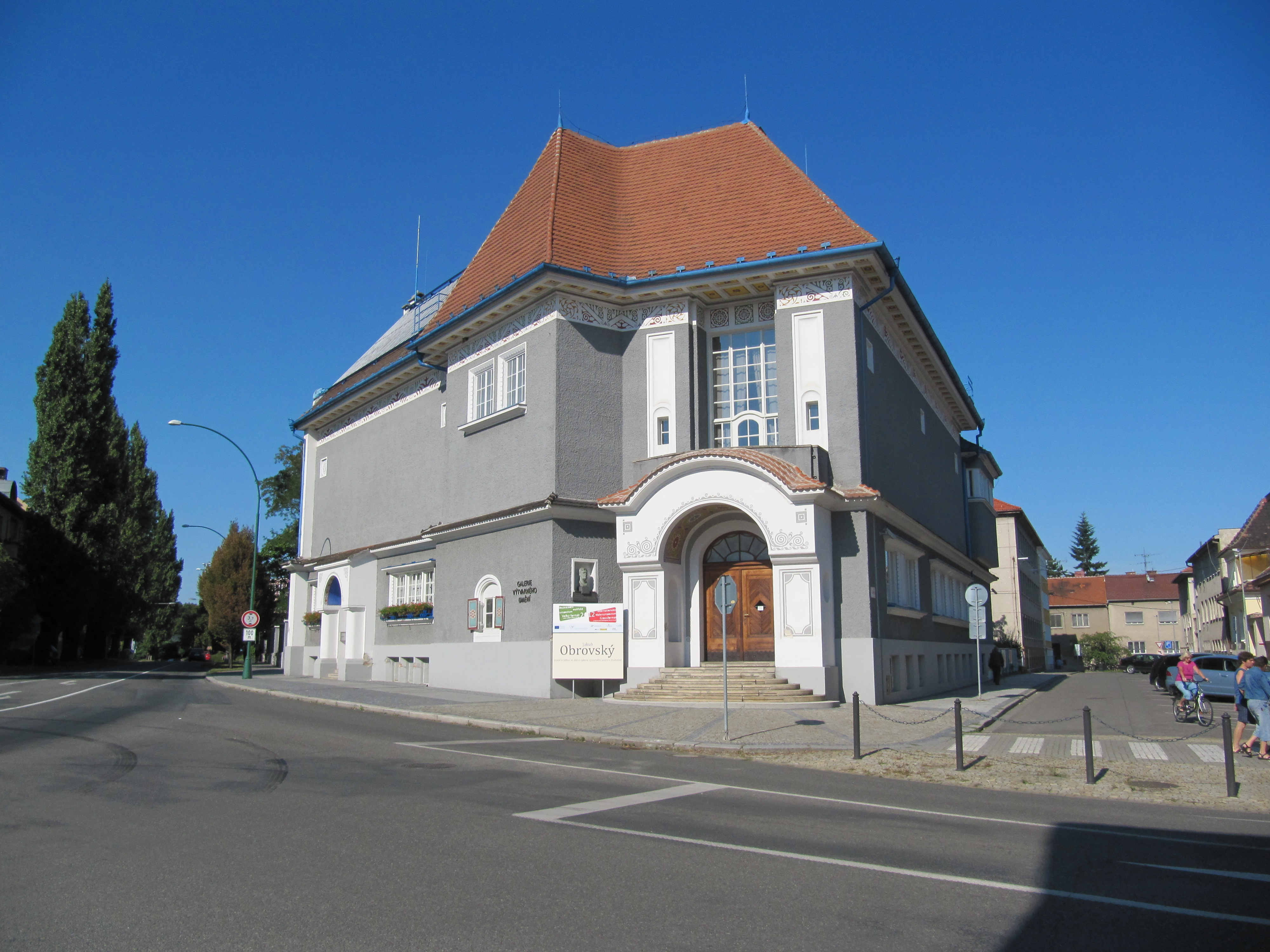 Hodonín, Czechia.